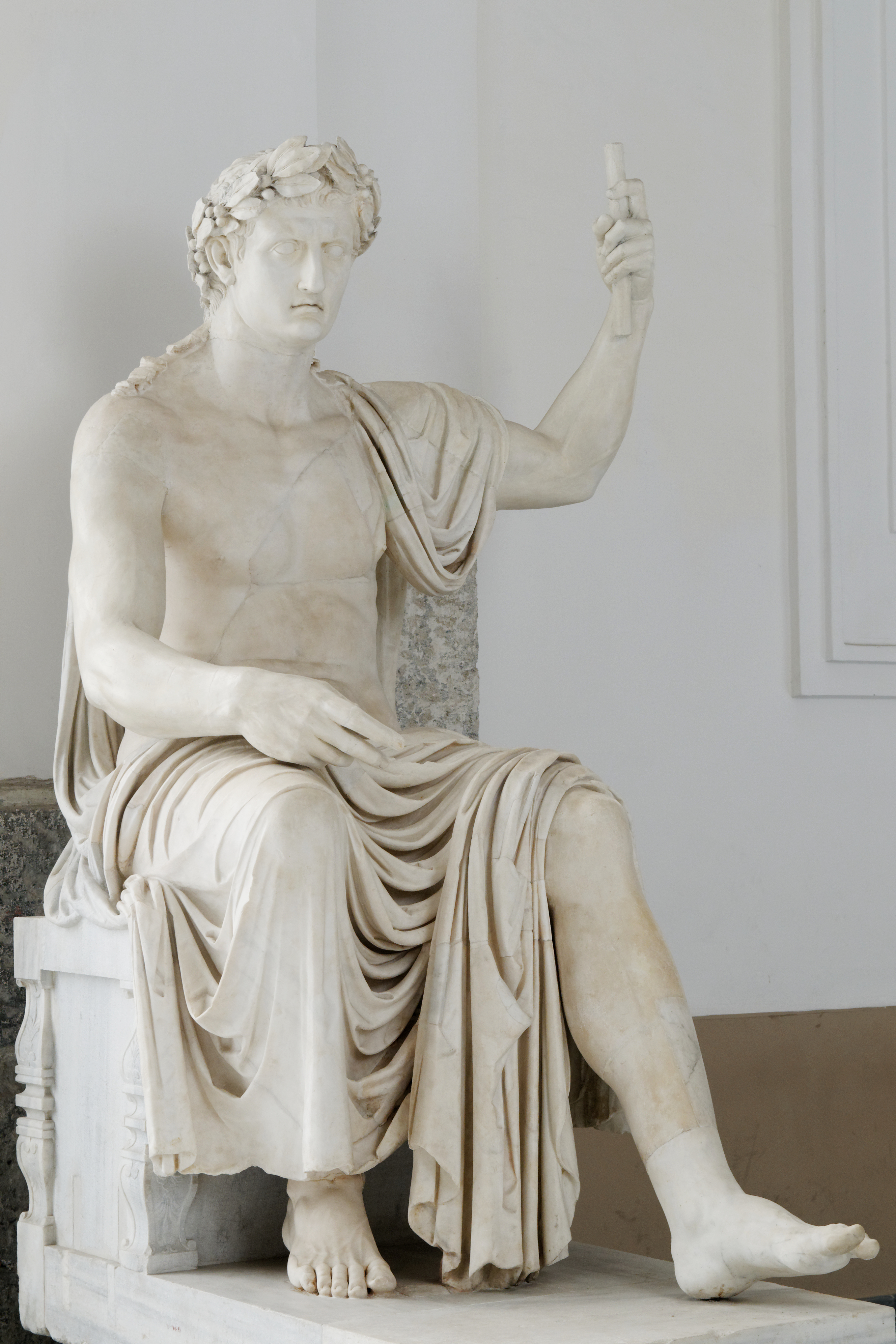 Colossal statue of the seated Augustus with a laurel crown.